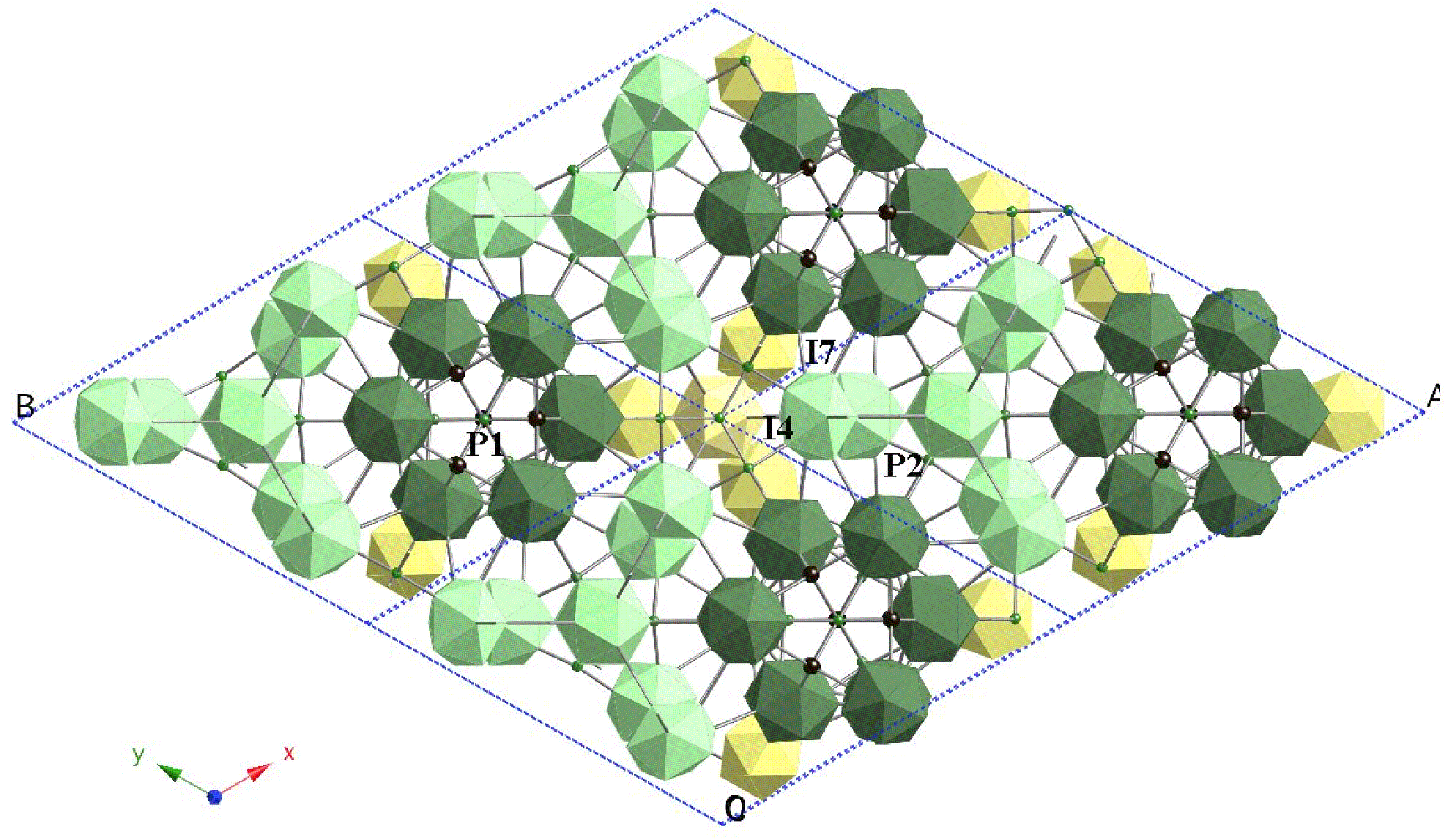 Boron framework structure of Sc3.67–xB41.4–y–zC0.67+zSi0.33–w viewed along the c-axis.